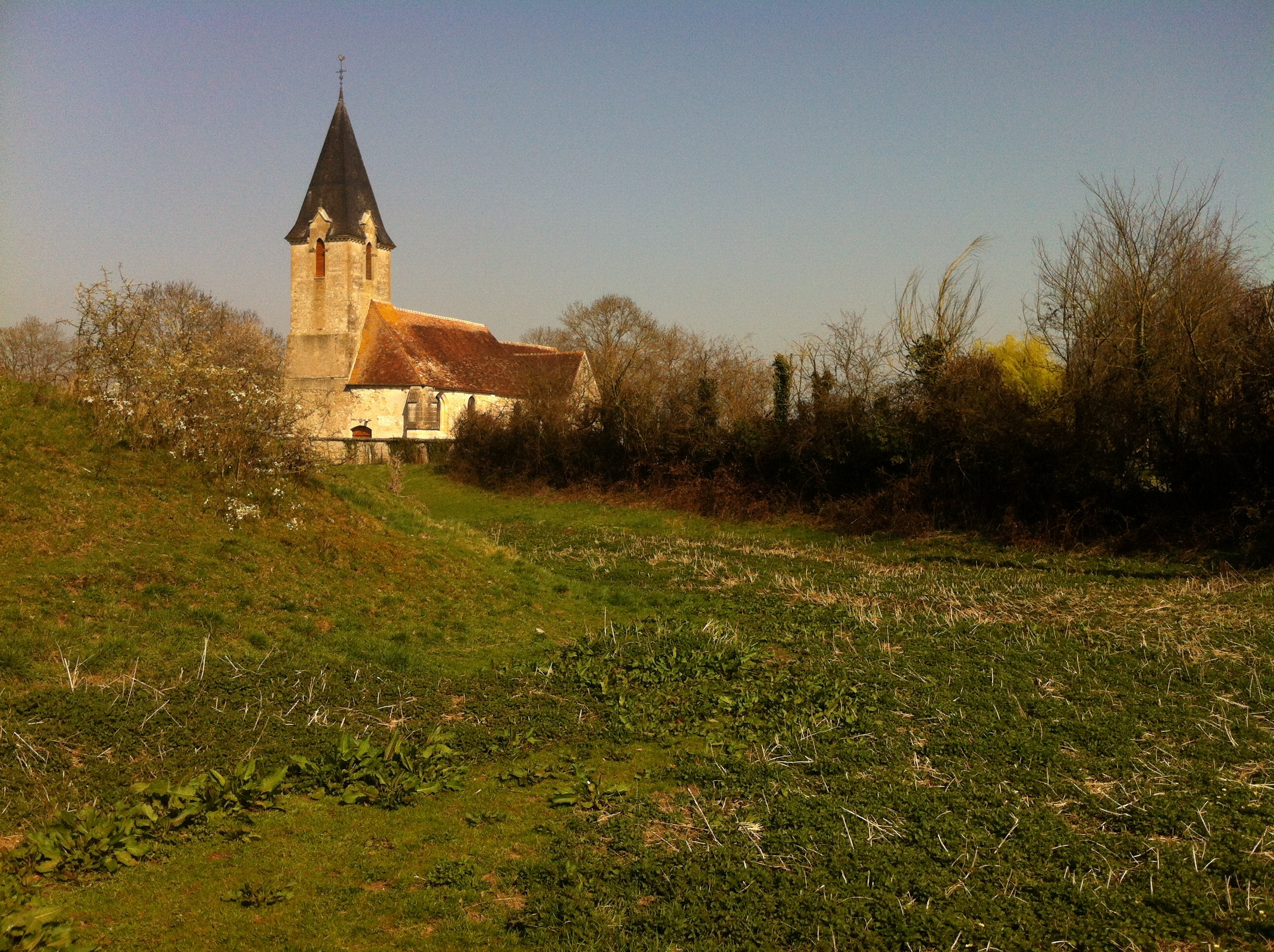 A stone church sites in the background and a grassy rise indicates a motte feudal ruin is in the foreground